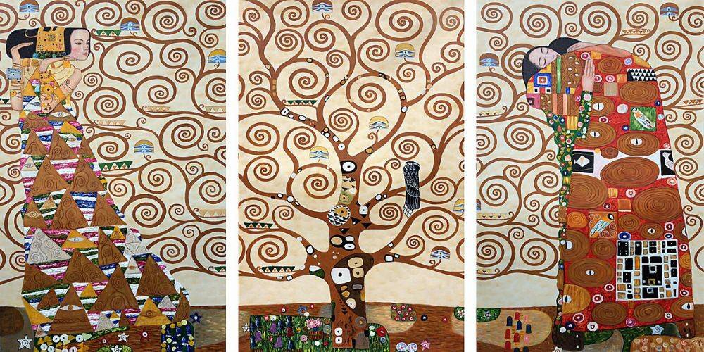 Stoclet Fries